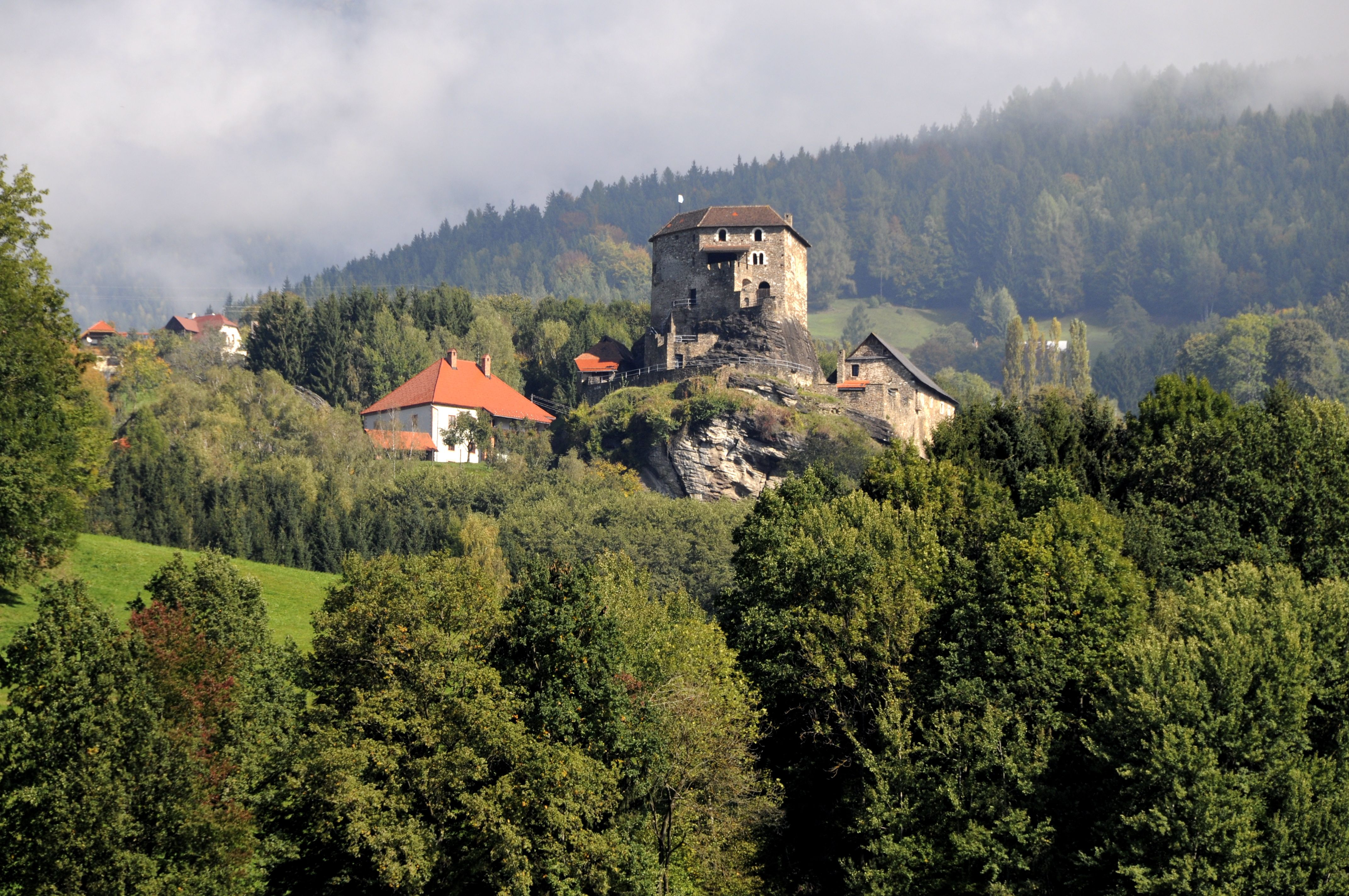 Castle ruin Stein at Steinberg-Oberhaus, municipality Sankt Georgen im Lavanttal, district Wolfsberg, Carinthia / Austria / EU